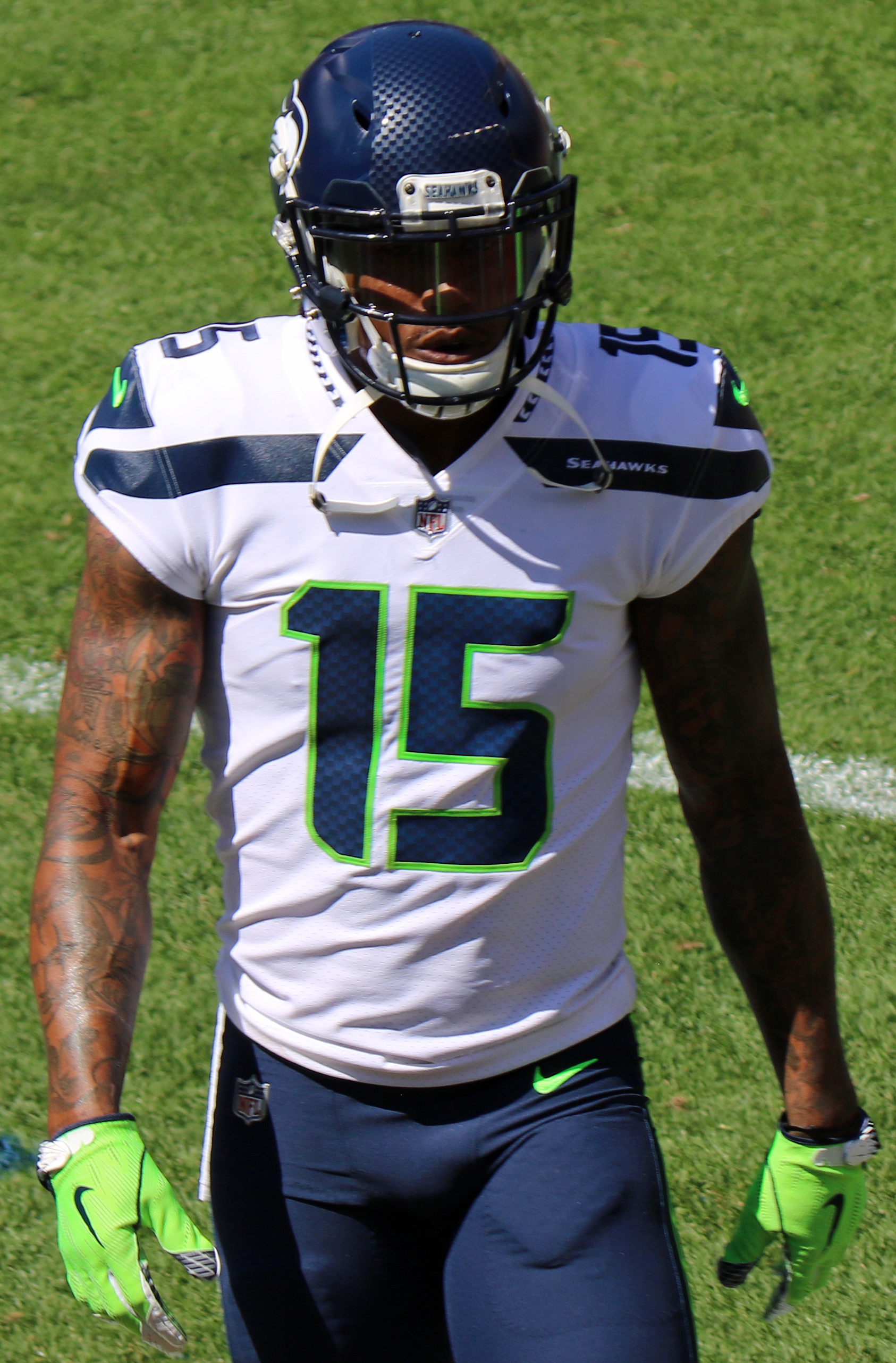 Brandon Marshall, a National Football League player.